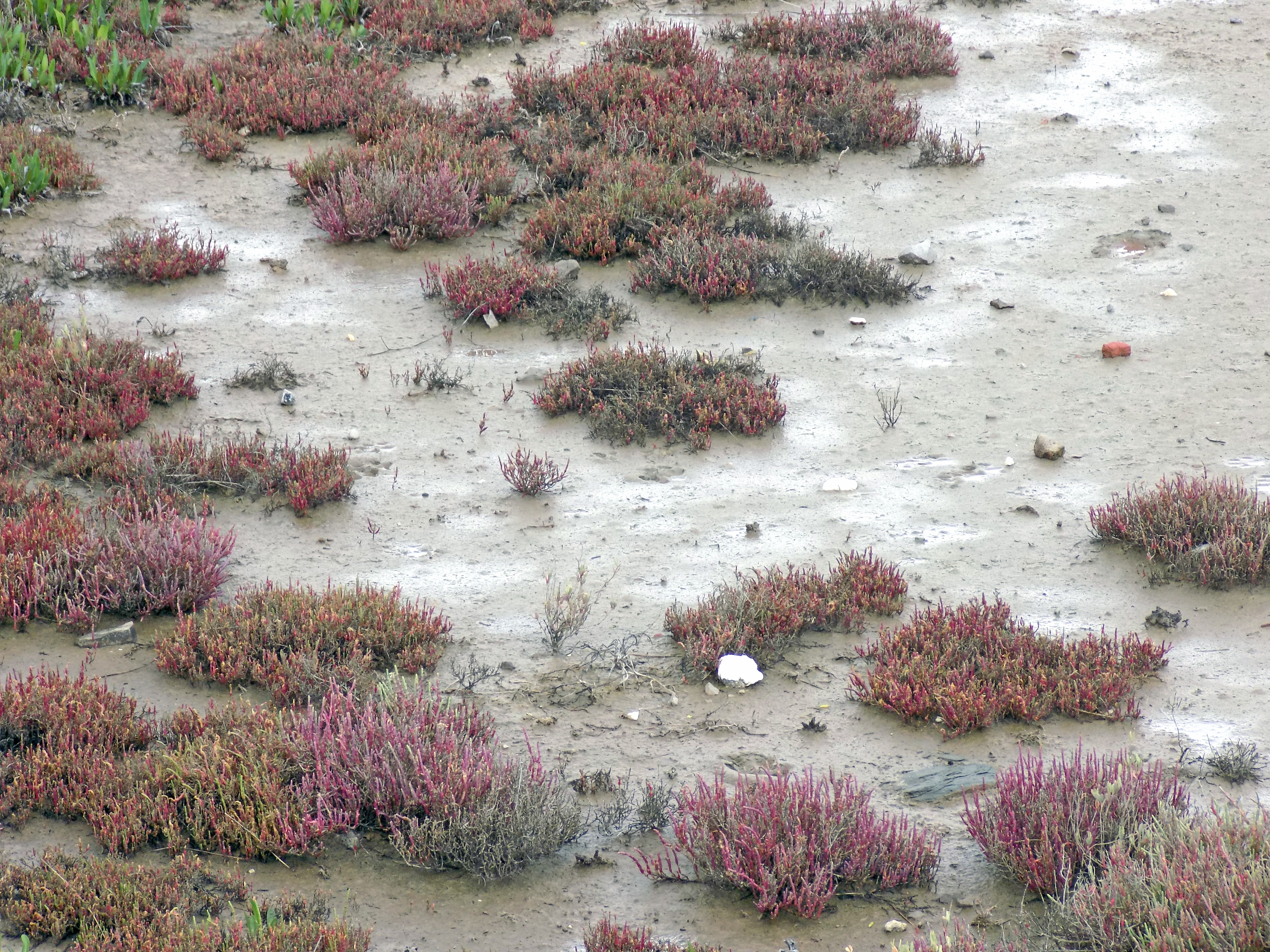 Special Nature Reserve "Solila", Tivat Municipality, Montenegro - glasswort (Salicornia europaea)